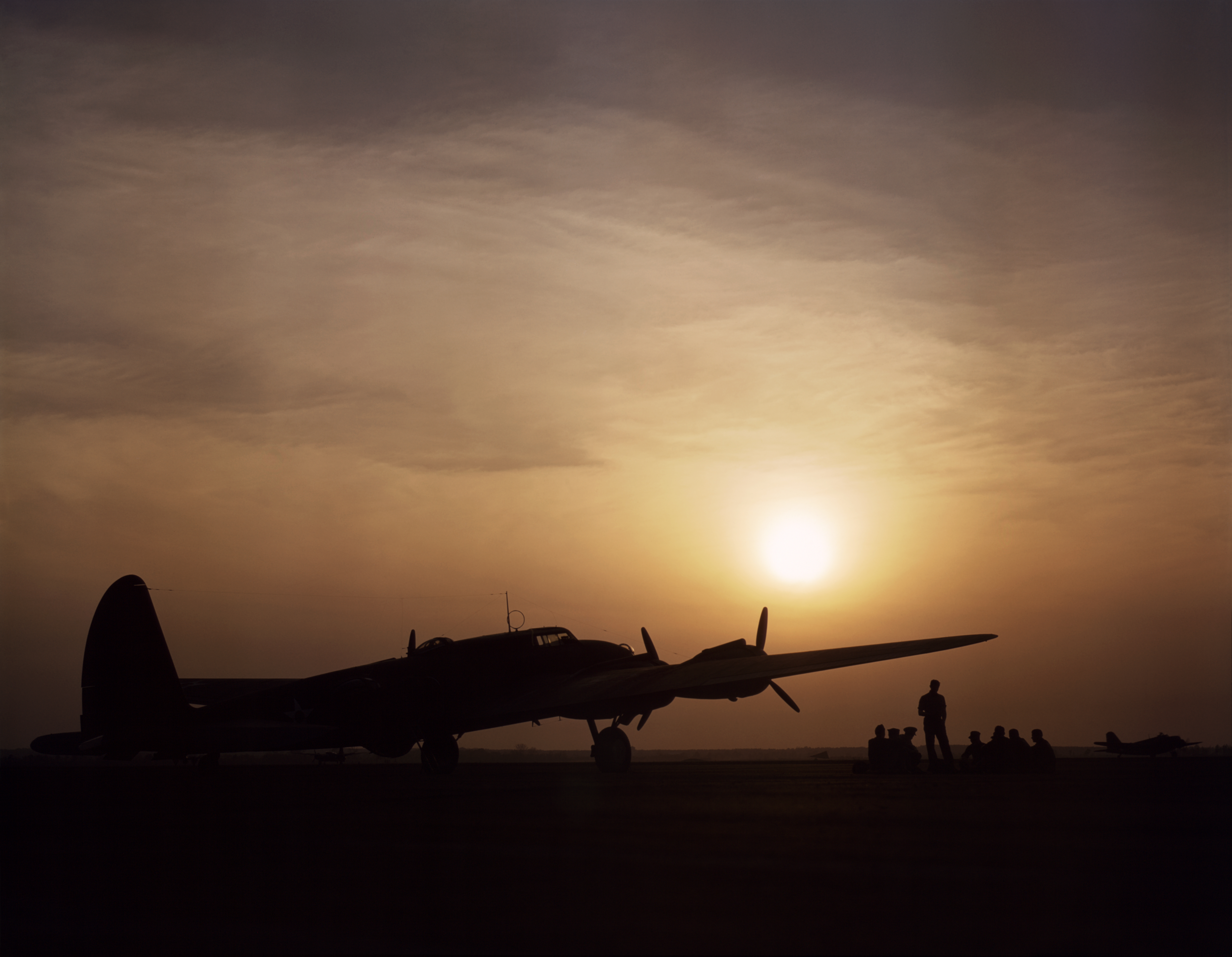 Photograph shows a B-17 bomber.